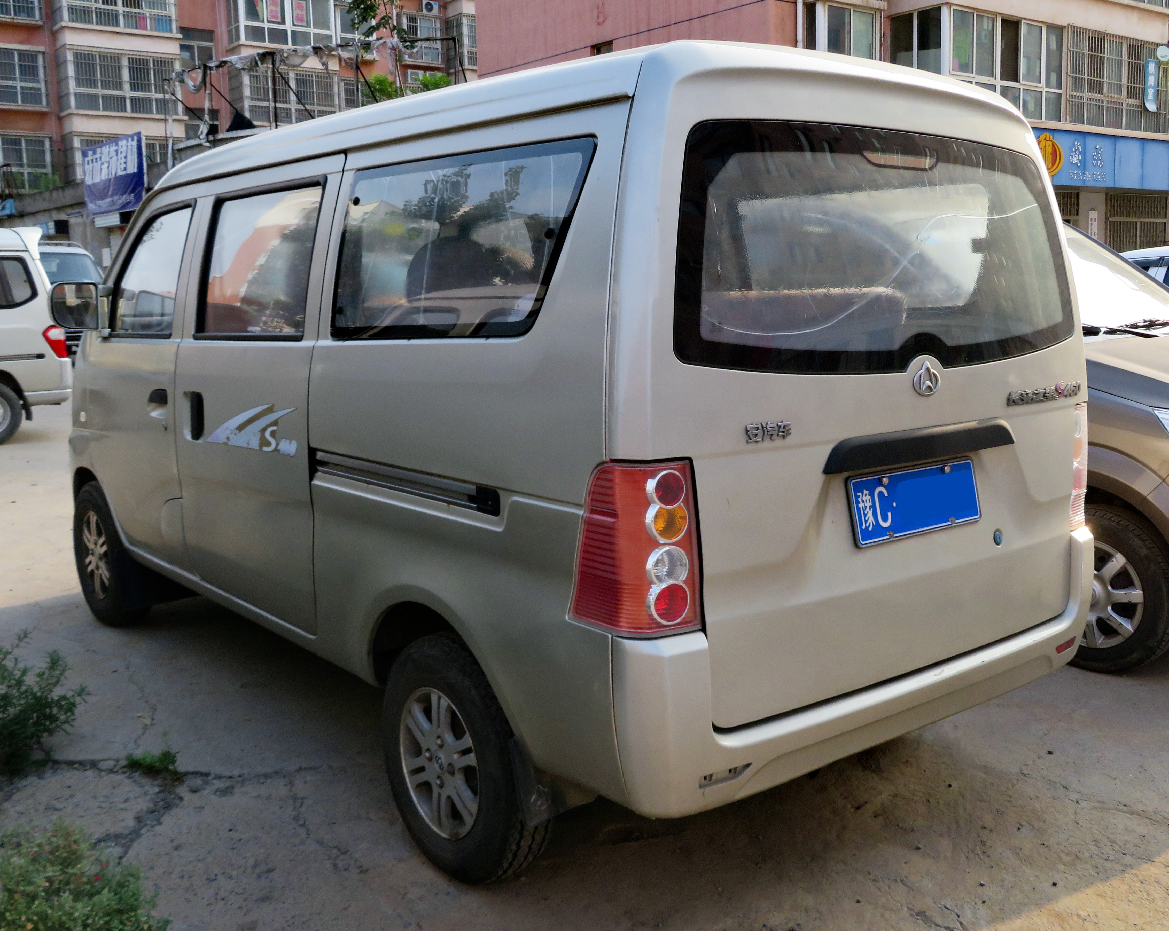 A 2012 Chang'an (Chana) Star S460 photographed in Xigong District, Luoyang, Henan province, China